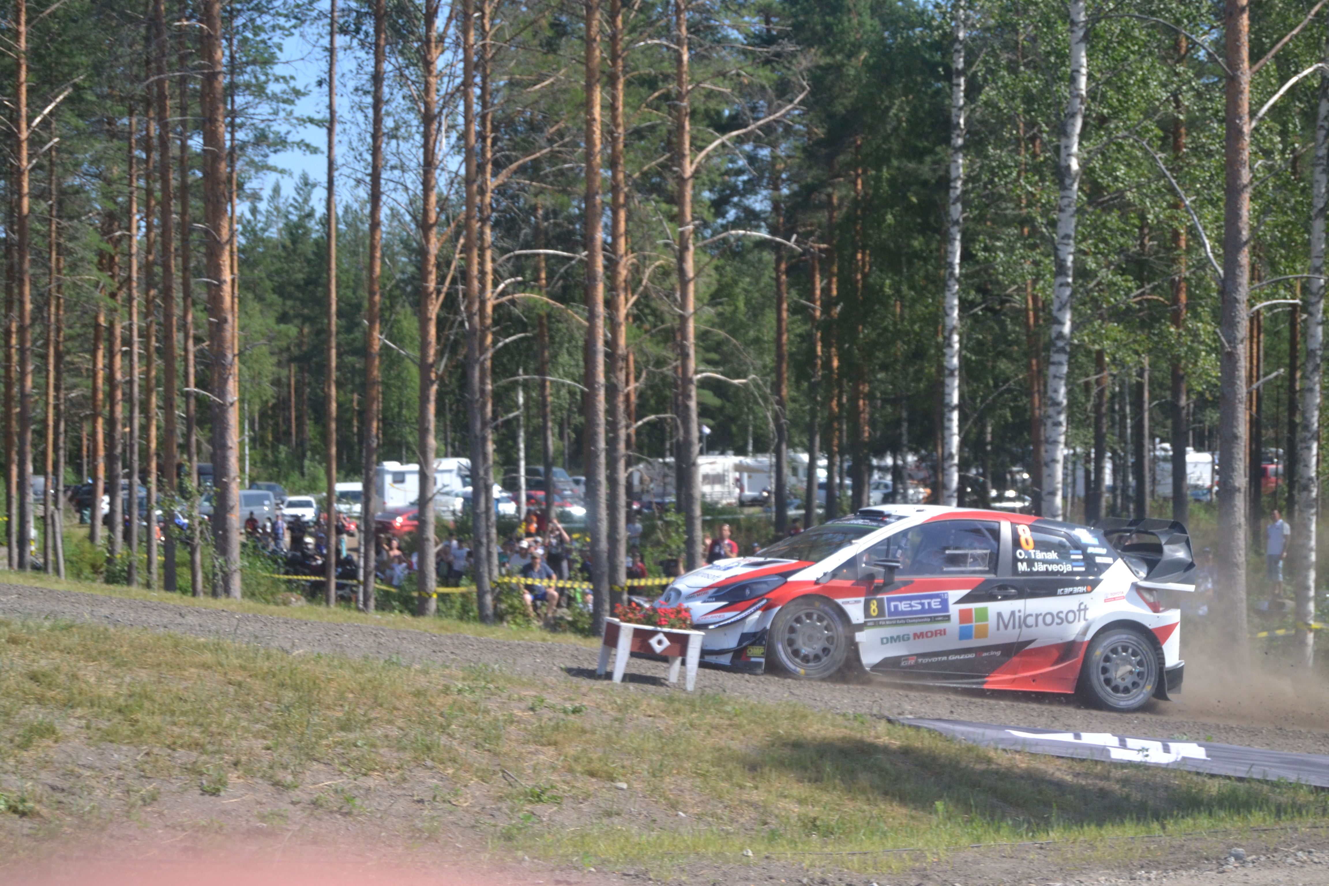 Ott Tänakat second Ruuhimäki stage at Rally Finland 2018